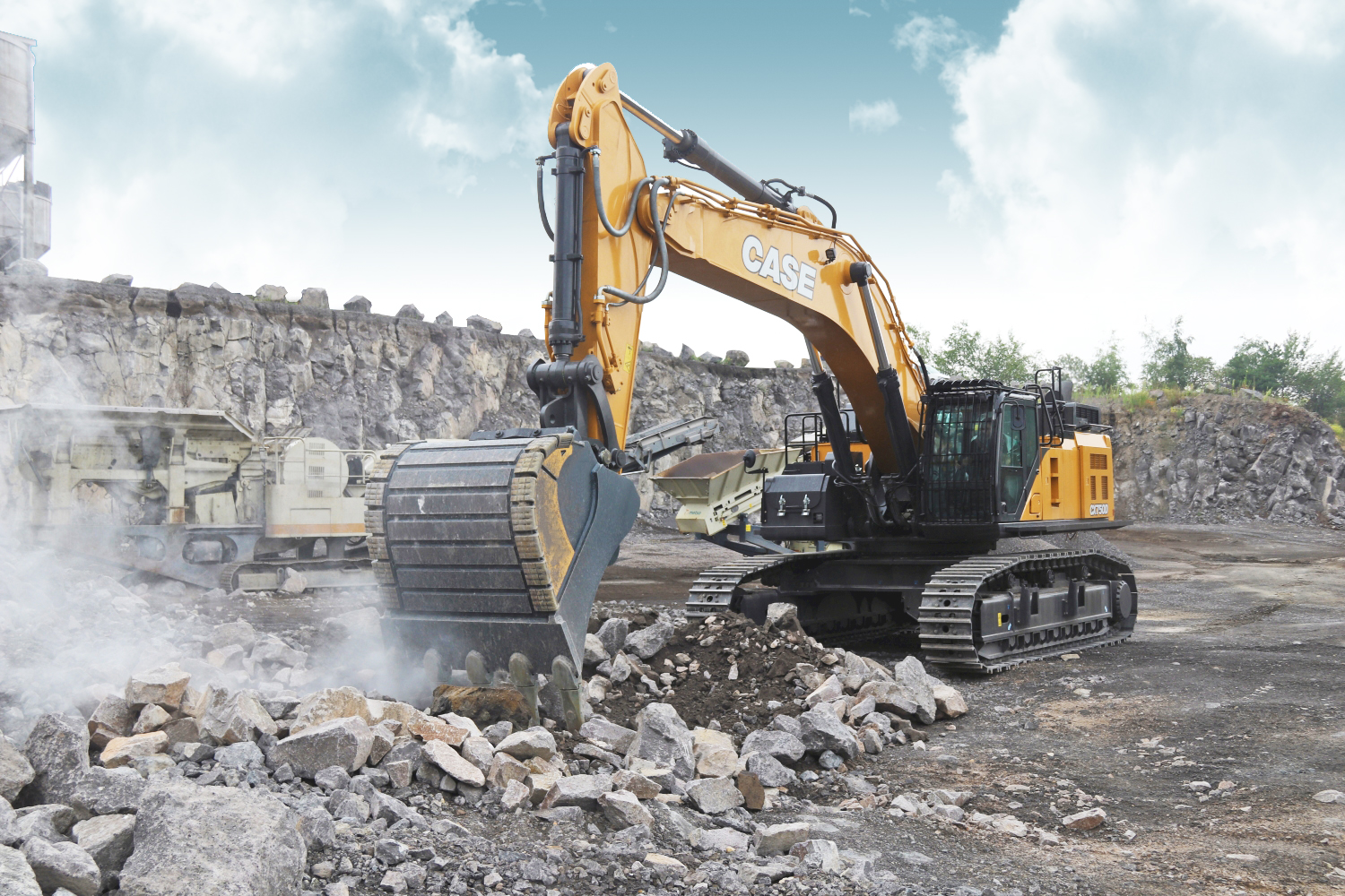 CASE CX750D crawler excavator